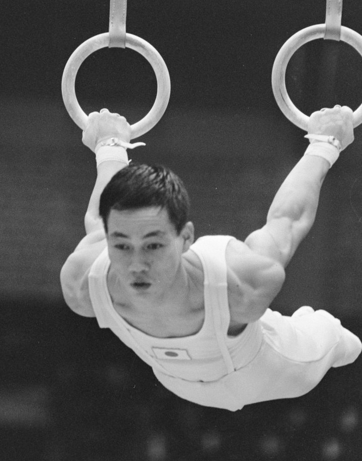 Takeshi Kato at the 1966 World Championships